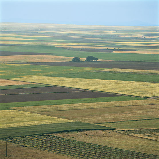 Open fields in Valladolid in Spain.